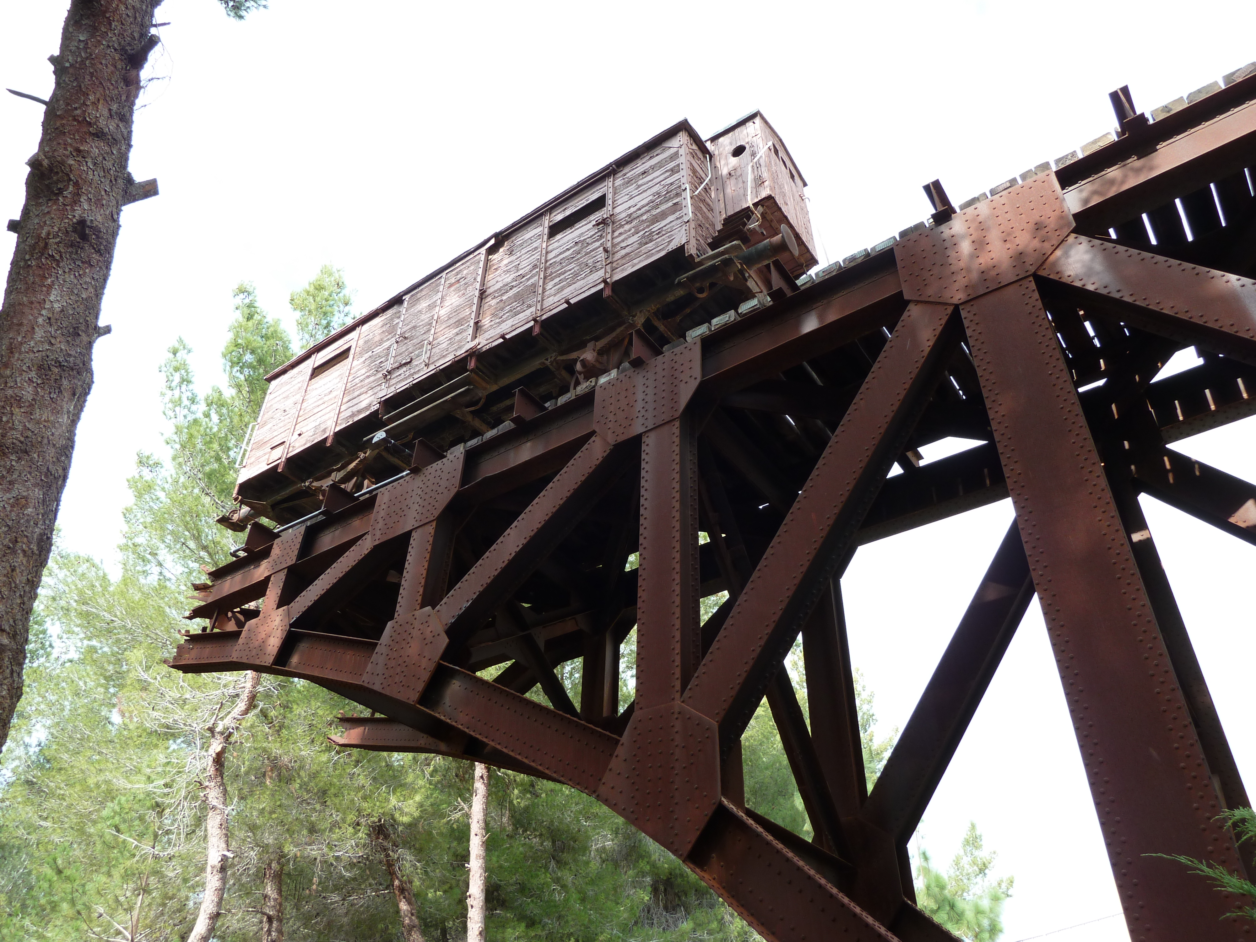 Jerusalem Yad Vashem Waggon monument